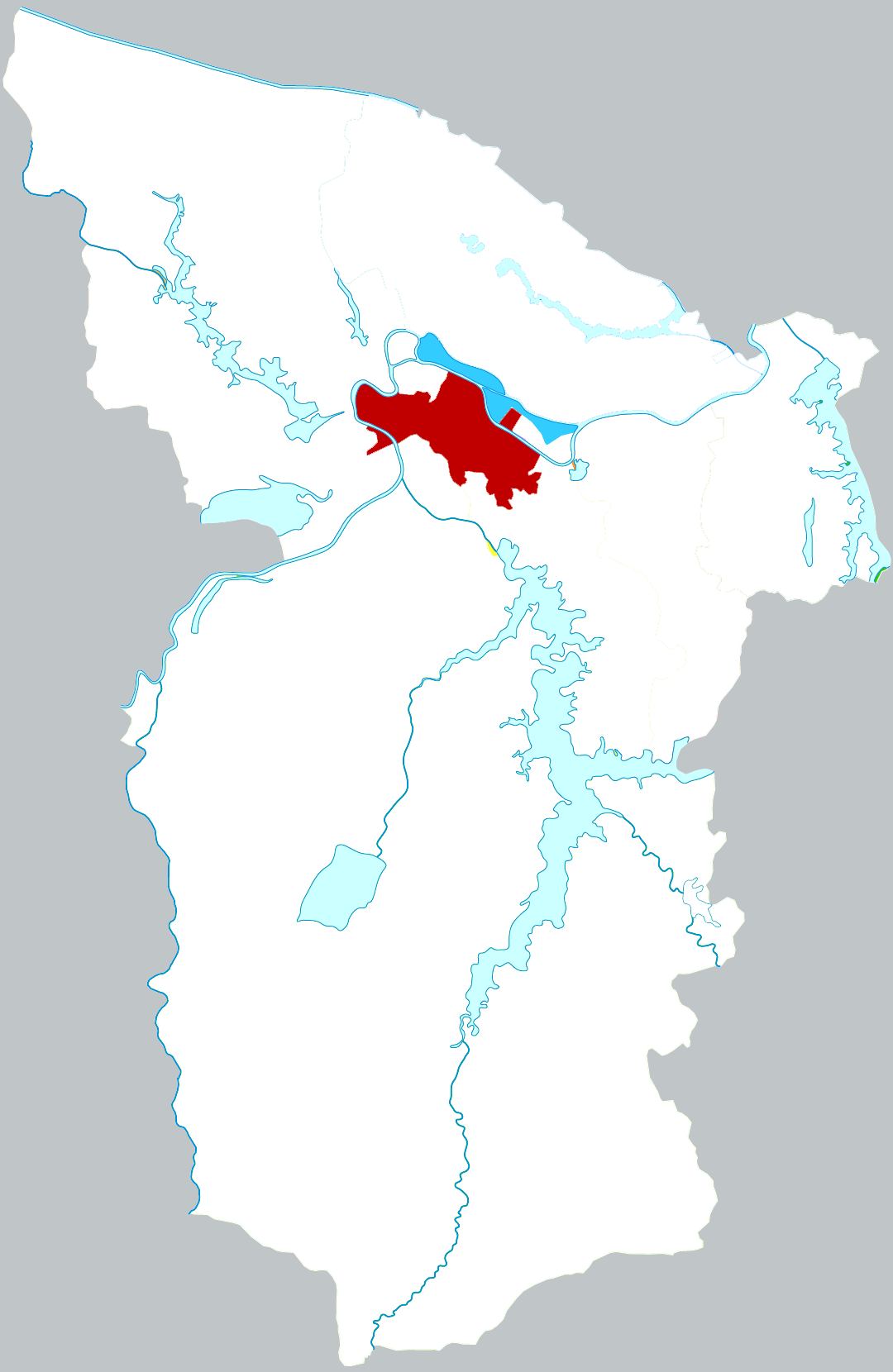 Location of Bagongshan district in Huainan city, China